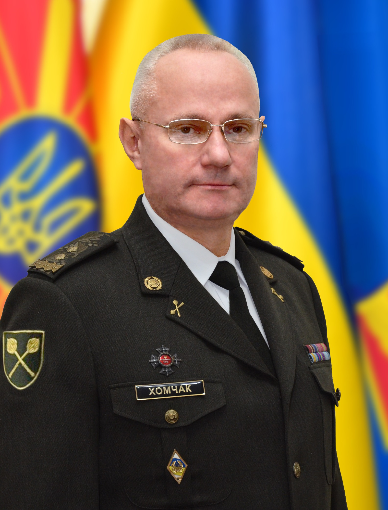 Lieutenant general Ruslan Khomchak, 2018. Chief of the General Staff of the Ukrainian Armed Forces (in 2019)